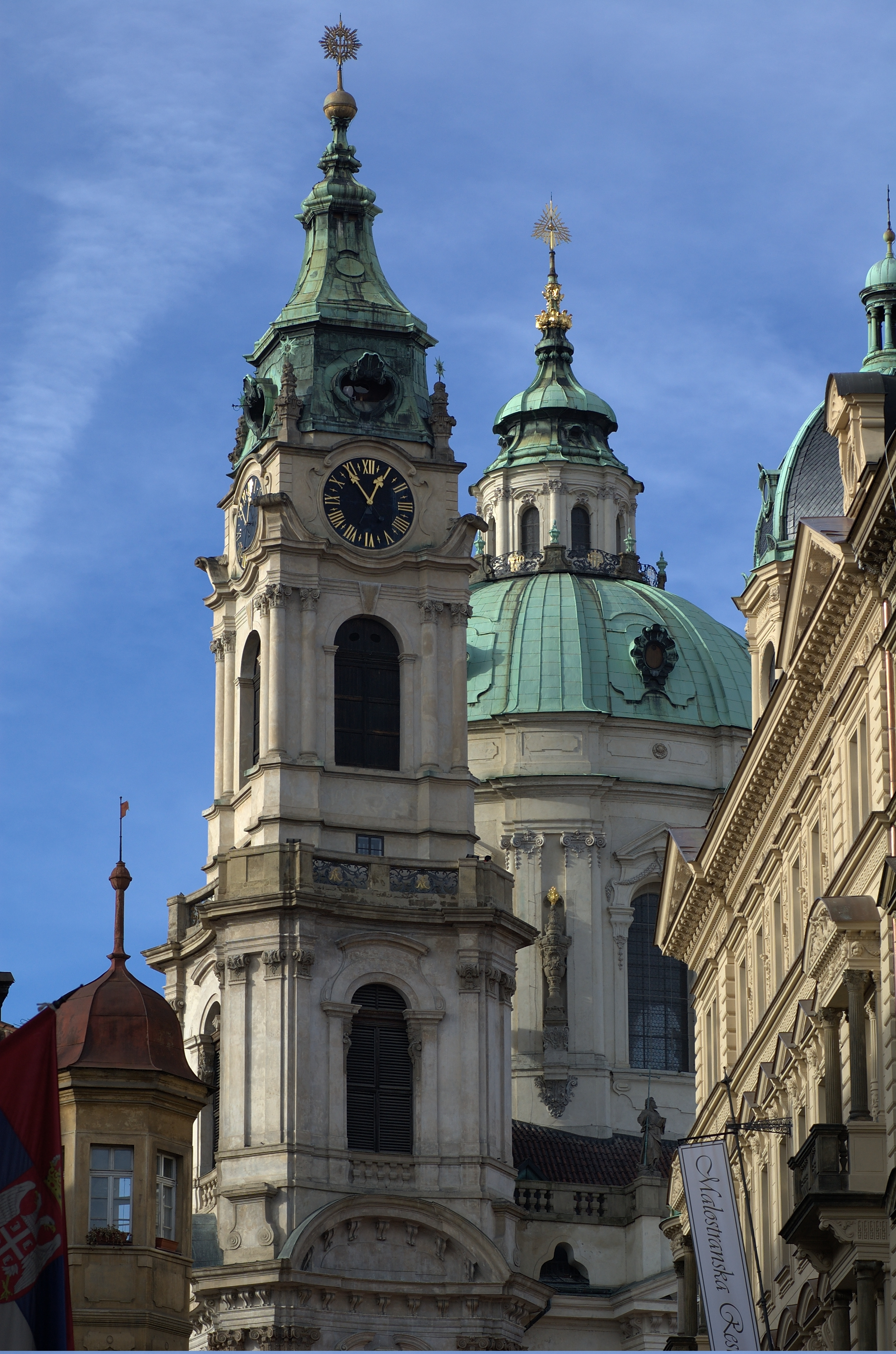 Church of St Nicholas of Mala Strana in Prague.